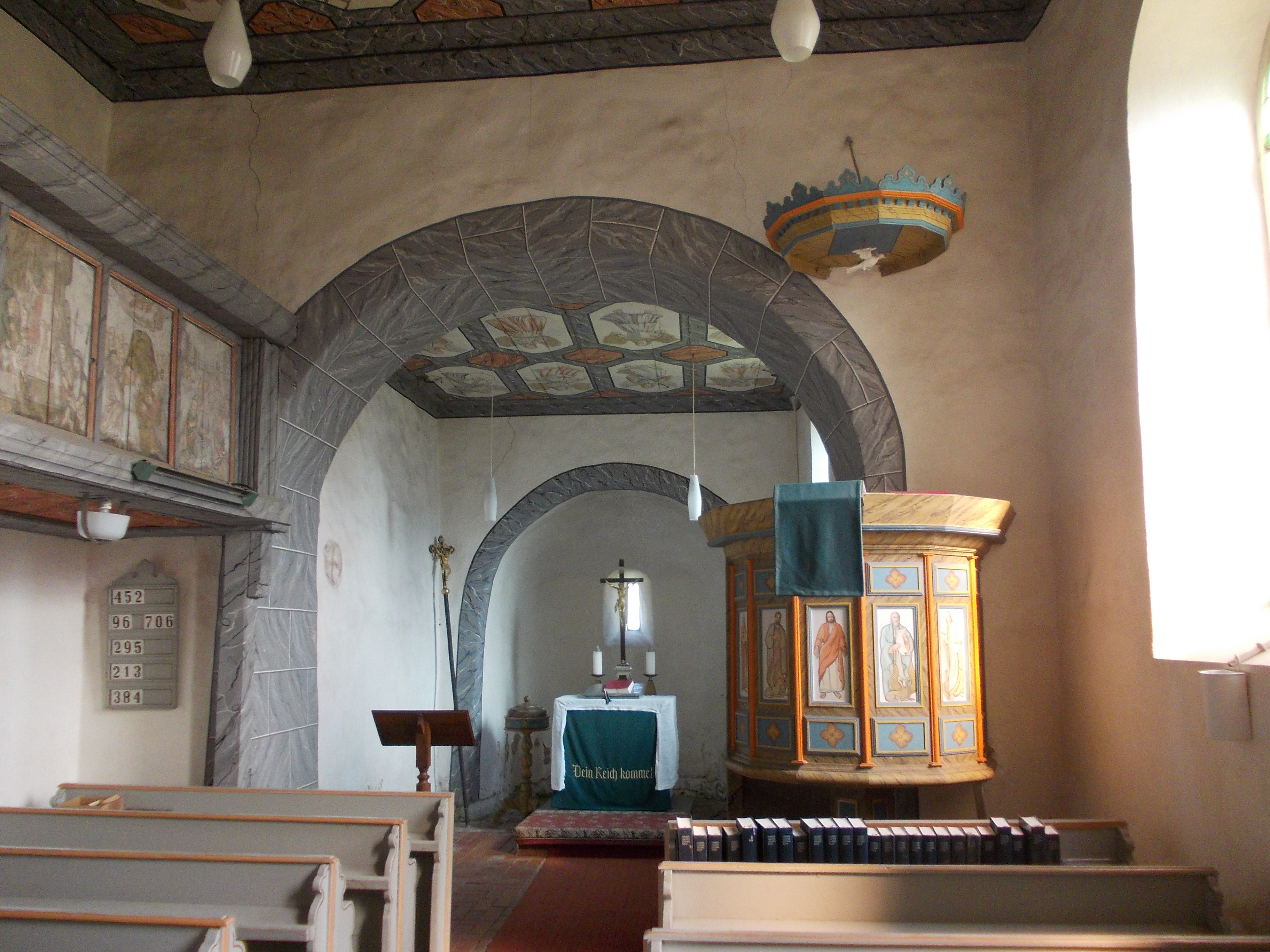 Naundorf church (Gössnitz, Altenburger Land district, Thuringia)